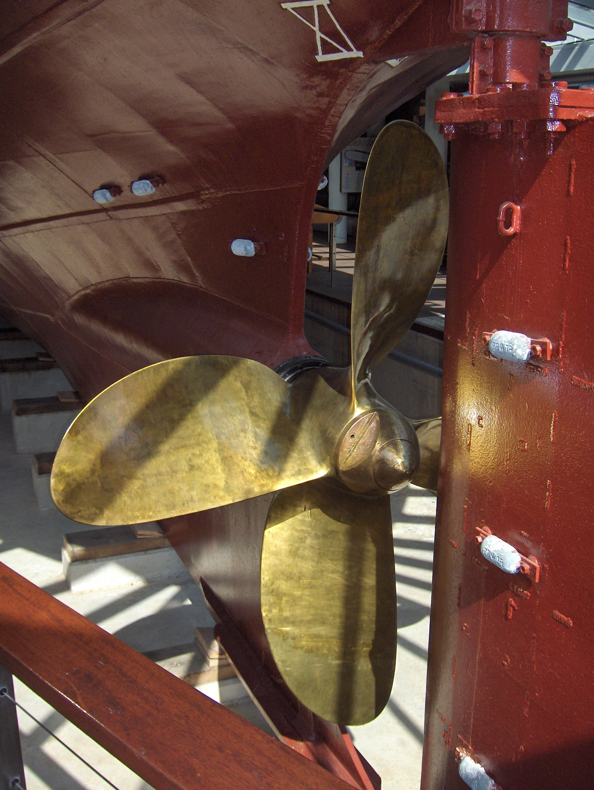 Propeller and rudder - the O129.Amandine is a former trawler fishing in Icelandic waters. It now has become a maritime museum in Oostende, Belgium